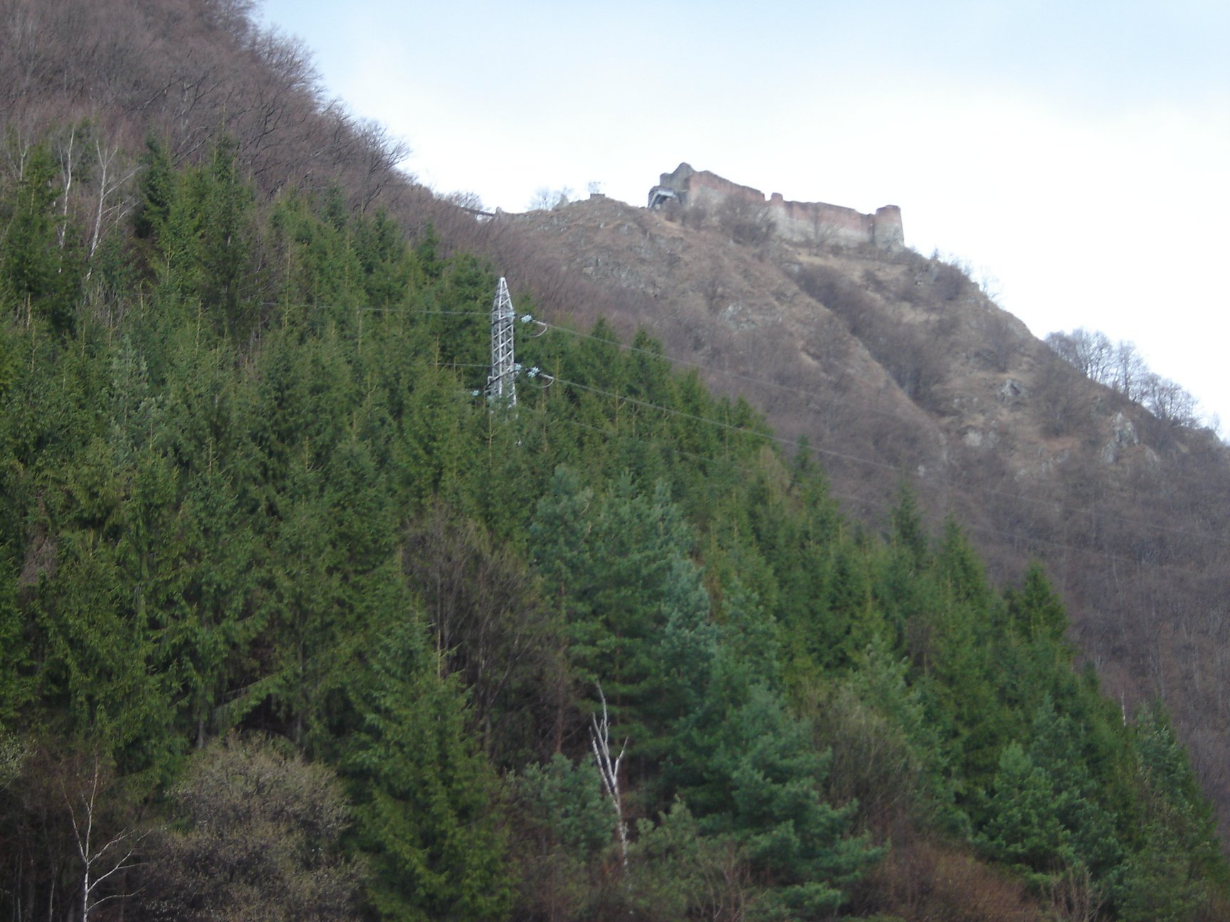 Poienari Castle, on top of a hill north north of Curtea de Arges, Romania